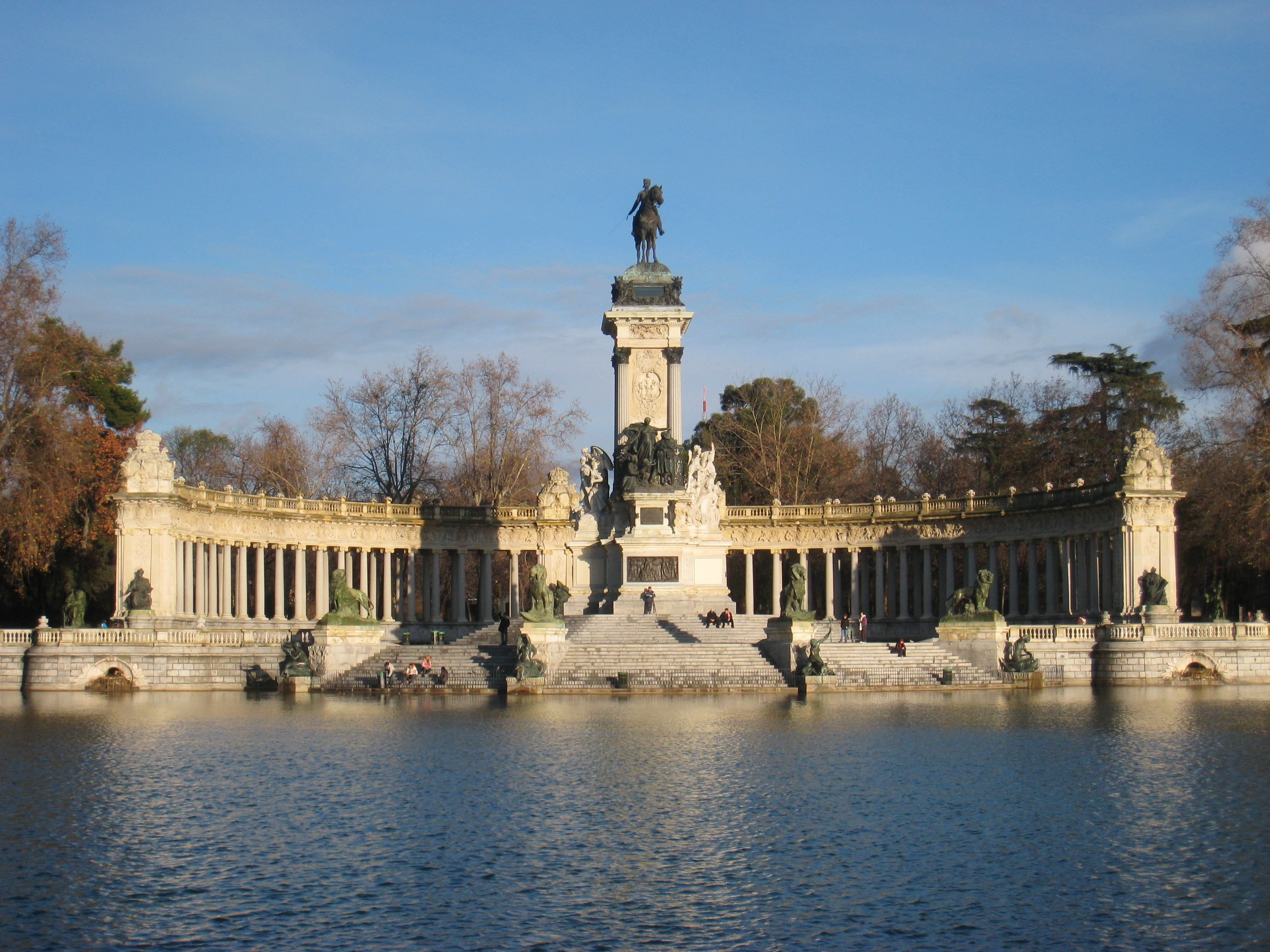 Monument to Alfonso XII of Spain, Madrid, Spain. I took this photograph.